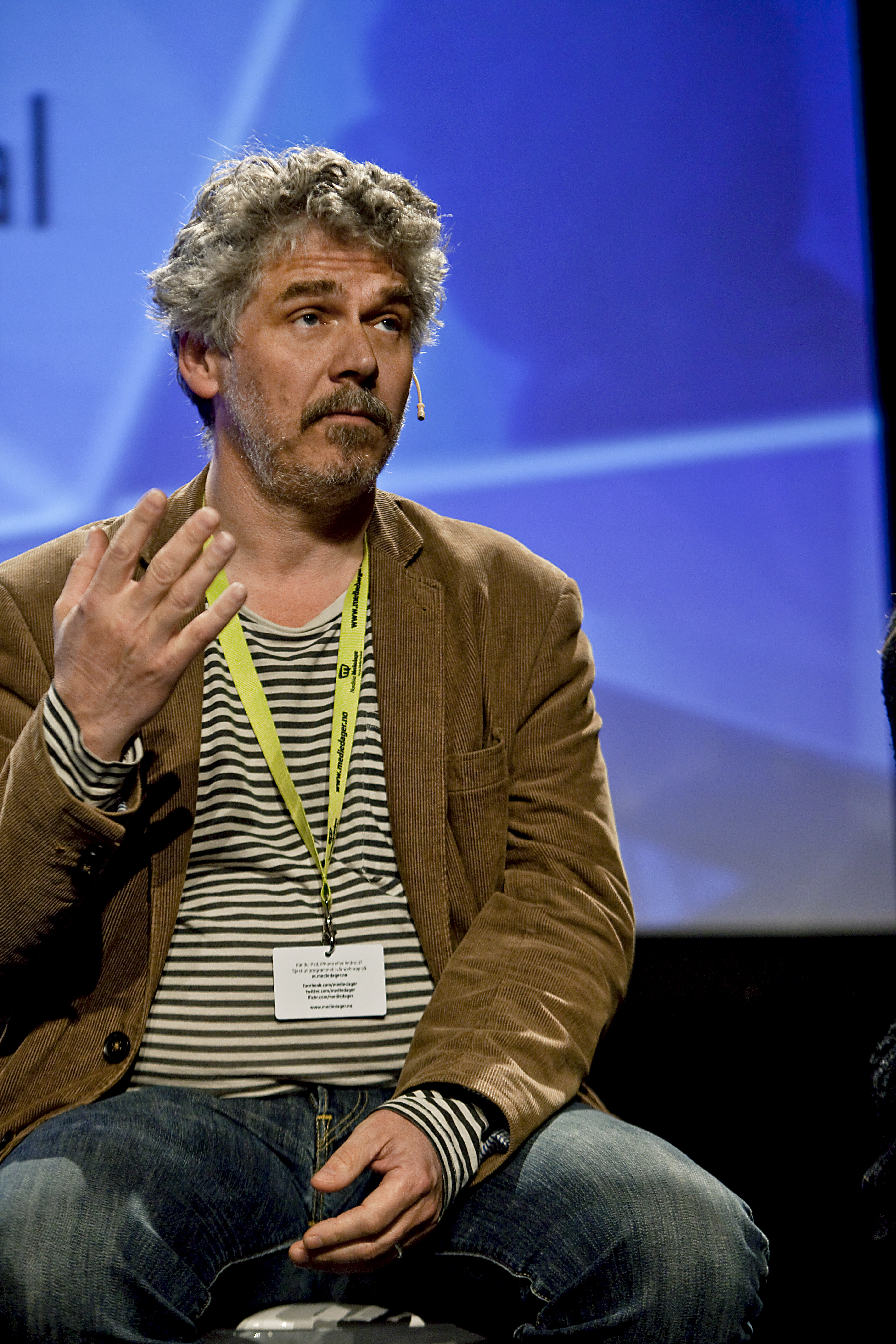 Daniel Alfredson at The Nordic Media Festival, Bergen, May 2011. Photo: Jarle H. Moe